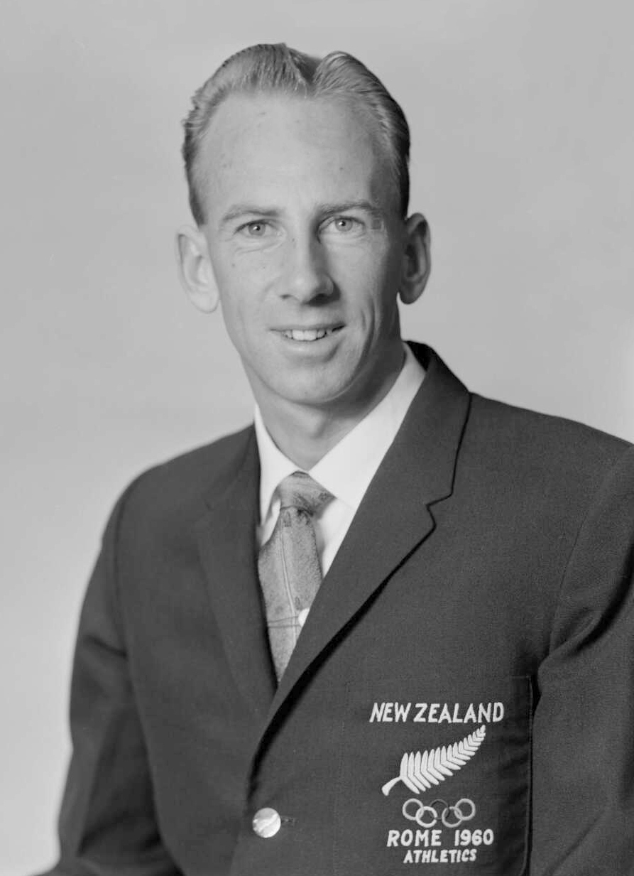 A B Magee, athlete with New Zealand Olympic team, Rome 1960